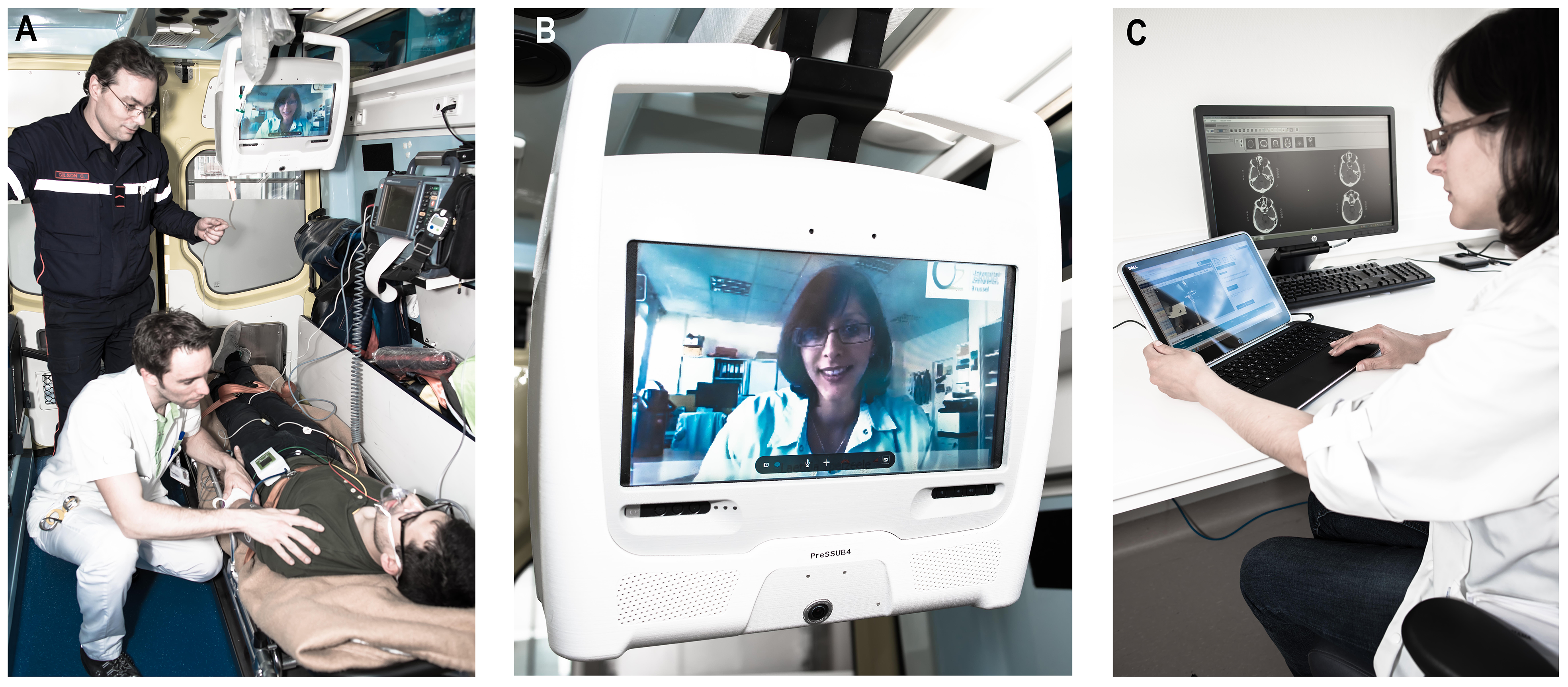 Telemedicine in the PIT ambulance of the UZ Brussel. The telemedicine device is securely mounted to the ceiling of the ambulance (A) and allows bidirectional audiovisual communication between the patient and the teleconsultant via integration of a microphone, speakers, a screen and a 360° view camera (B). The teleconsultant has mobile access to the telemedicine platform using a lightweight laptop computer with touch screen, integrated microphone, speakers and a webcam (C).